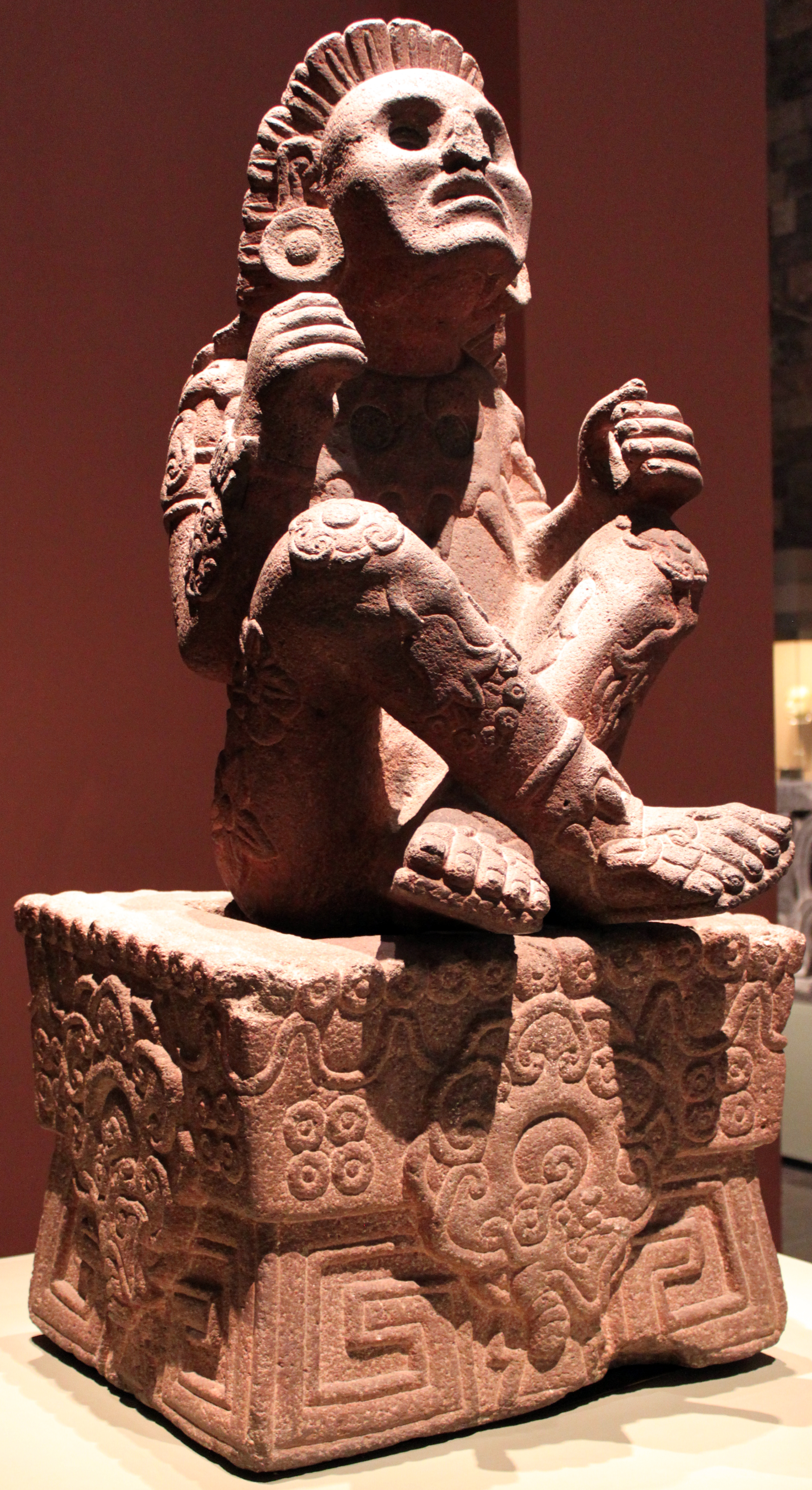 Xochipilli (Nahuatl as "Price of the Flowers,"); Aztec god of art, games, beauty, dance, flowers, and song; statue in the National Museum of Anthropology, Mexico City